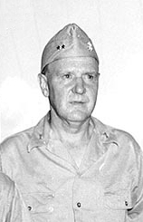 Rear Admiral Theodore S. Wilkinson, USN, outside the wheel house on board USS Appalachian (AGC-1) in the Marshall Islands.